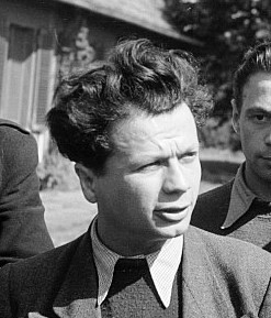 Hermann Axen (1946) extracted from "Wilhelm Pieck & Otto Grotewohl in der FDJ-Hochschule am Bogensee"